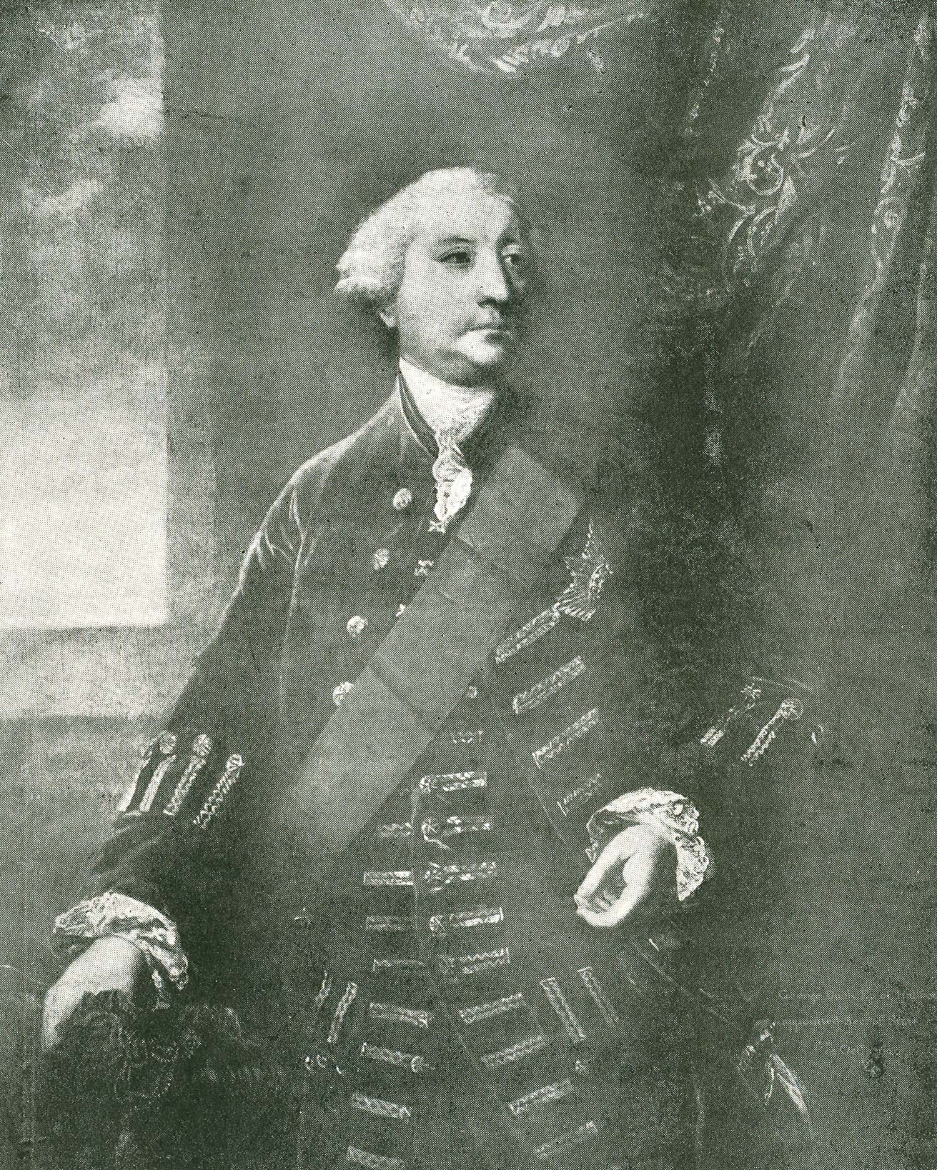 George Montagu-Dunk, 2nd Earl of Halifax (1716-1771). "First Lord Commissioner of Trade and Plantations, and Secretary of State; Styled 'The Father of the Colonies'. Born 1716, died 1771. After the portrait by Sir Joshua Reynolds (painted 1764-5), now belonging to Lord Curzon." Format: Imprint of photograph of original oil portrait